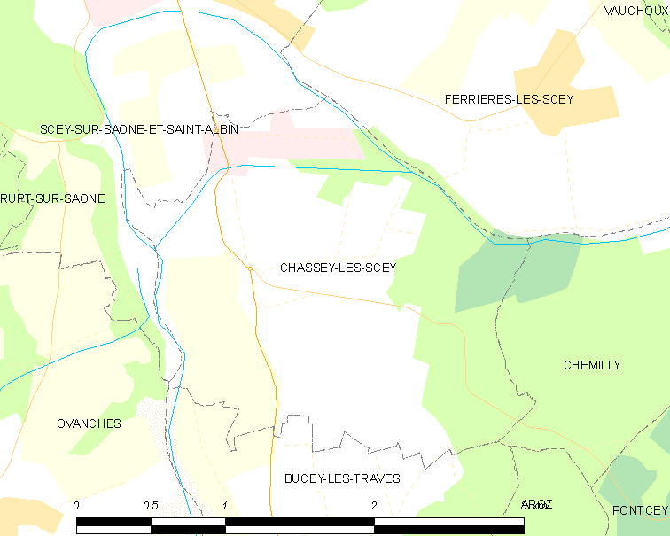 Map of French municipality